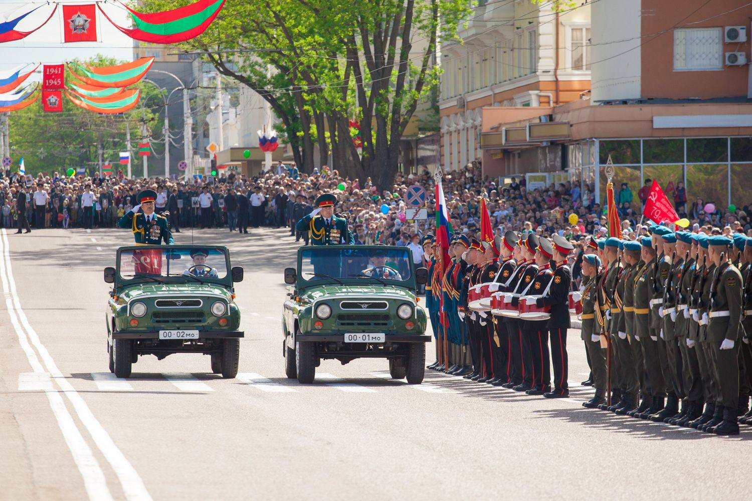 The ceremonial events devoted to the 72nd anniversary of the Great Victory in Tiraspol.